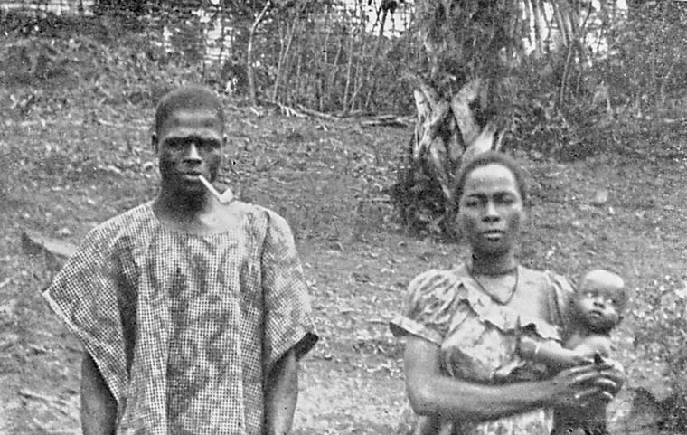 " Papa, Maman, et bébé " : A Grebo man, wife and child (Cape Palmas)